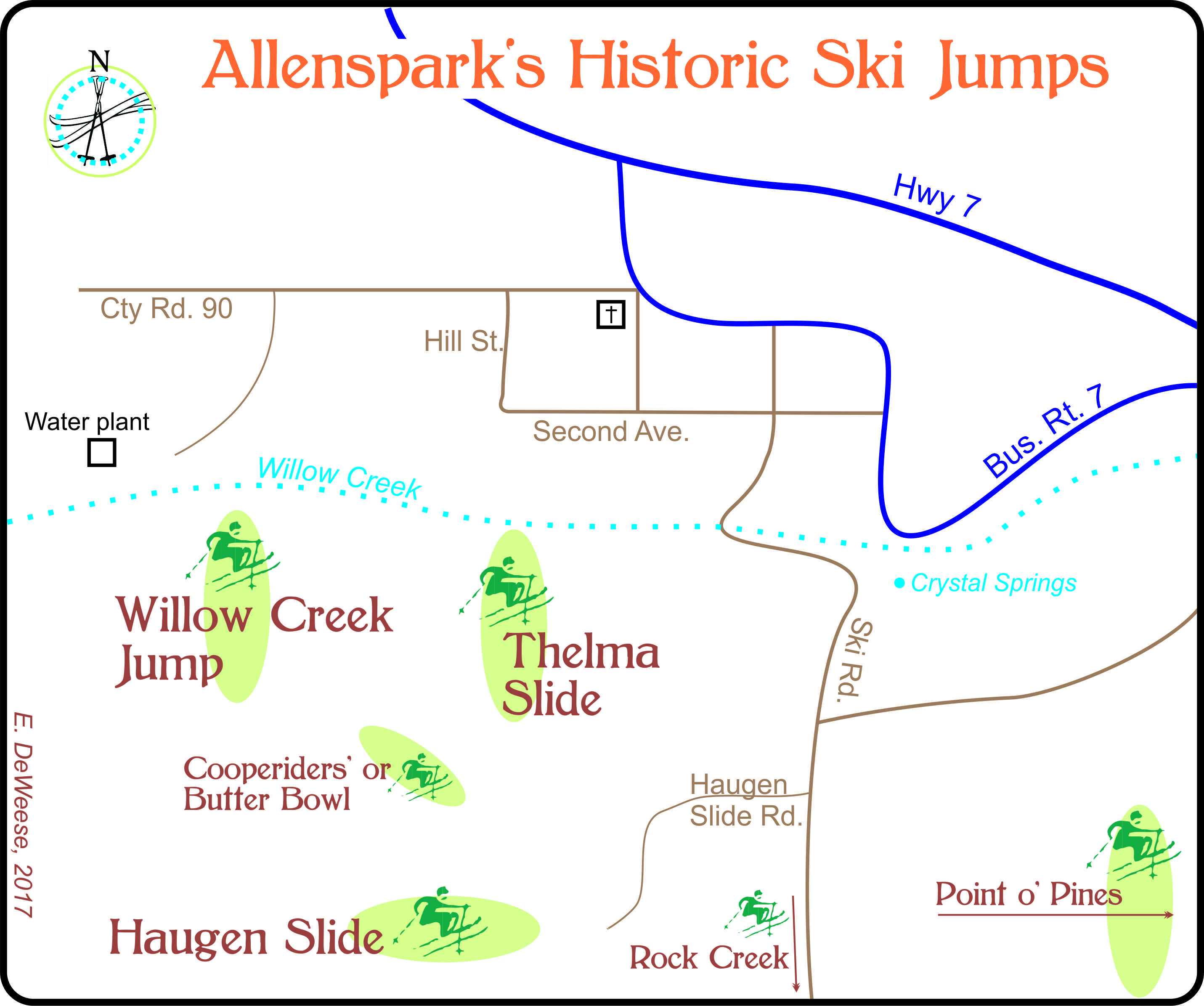 Locations of former ski jumps and slopes in the Allenspark, Colorado, area.